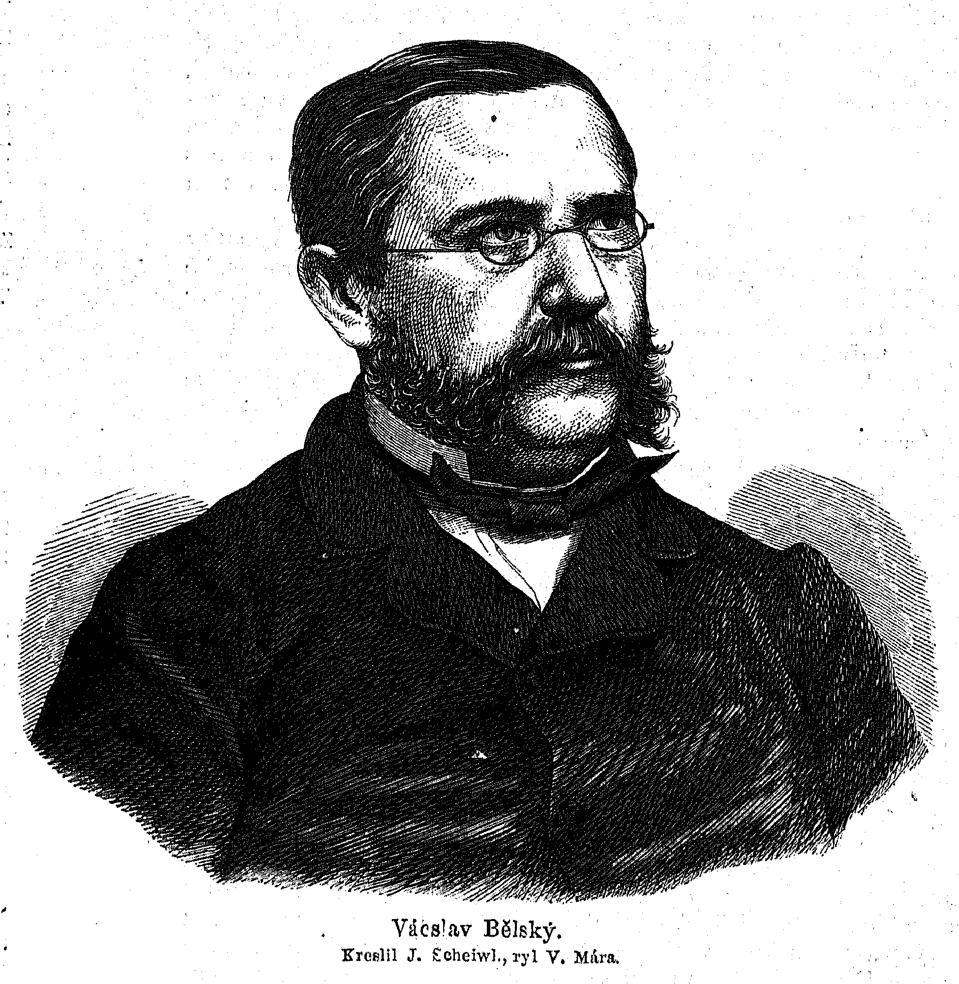 Portrait of Václav Bělský (1818–1878), portreeve (mayor) of Prague 1863–1867.